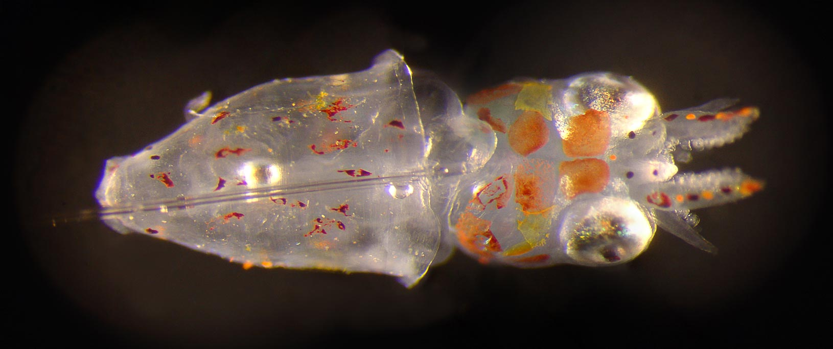 Baby Loligo Squid Micro Panorama